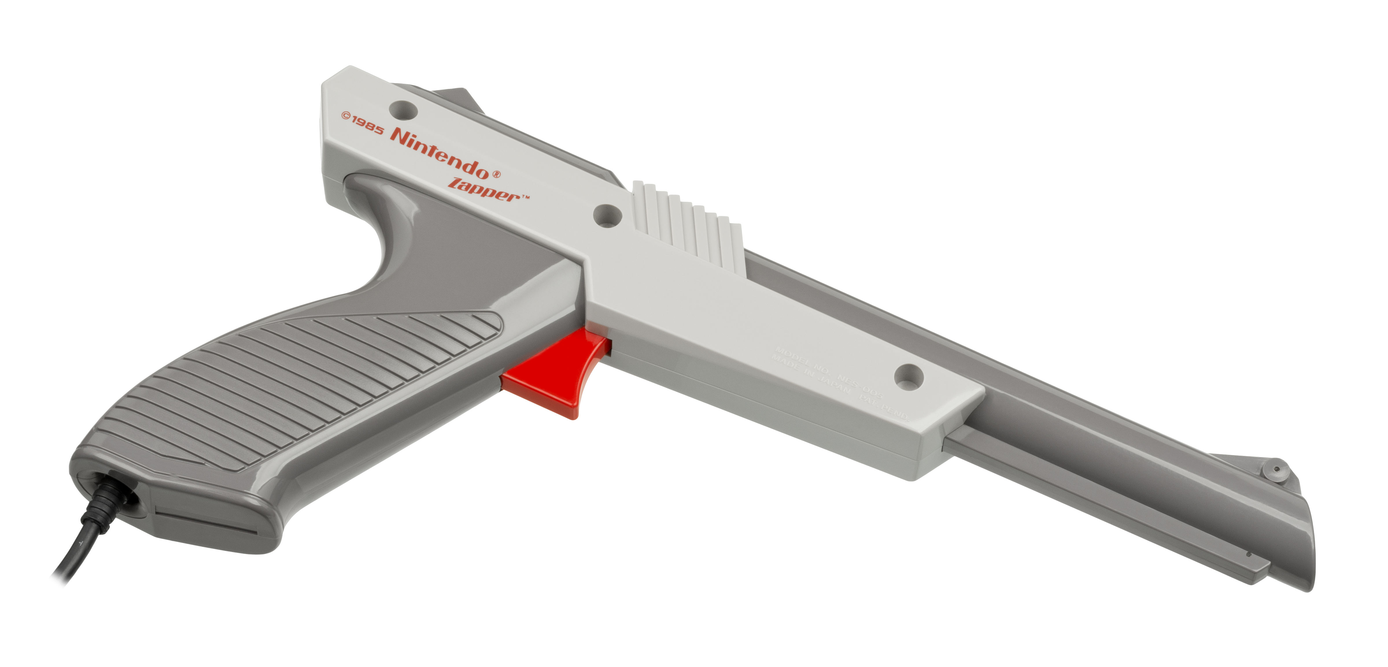 The Nintendo Zapper, a light gun for the Nintendo Entertainment System (NES) video game console. This is the gray model that was originally released as a pack-in with the console, later sold separately.